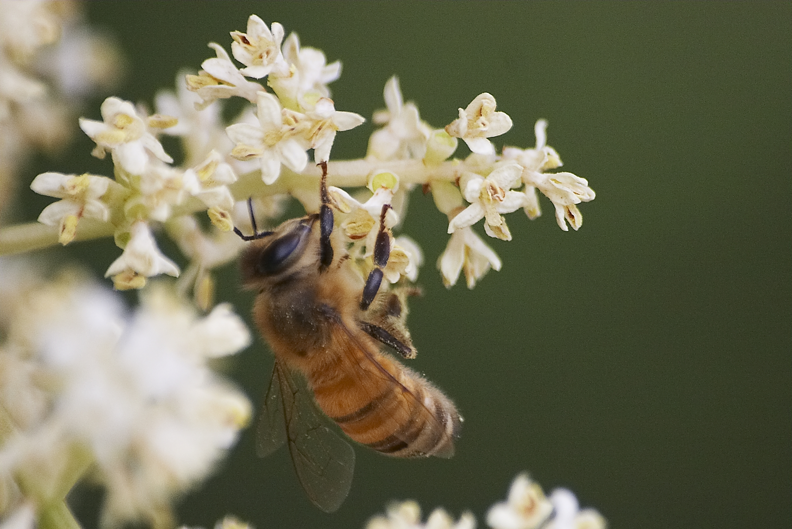 Bee